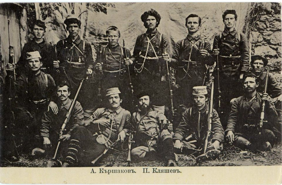 Portrait of his cheta